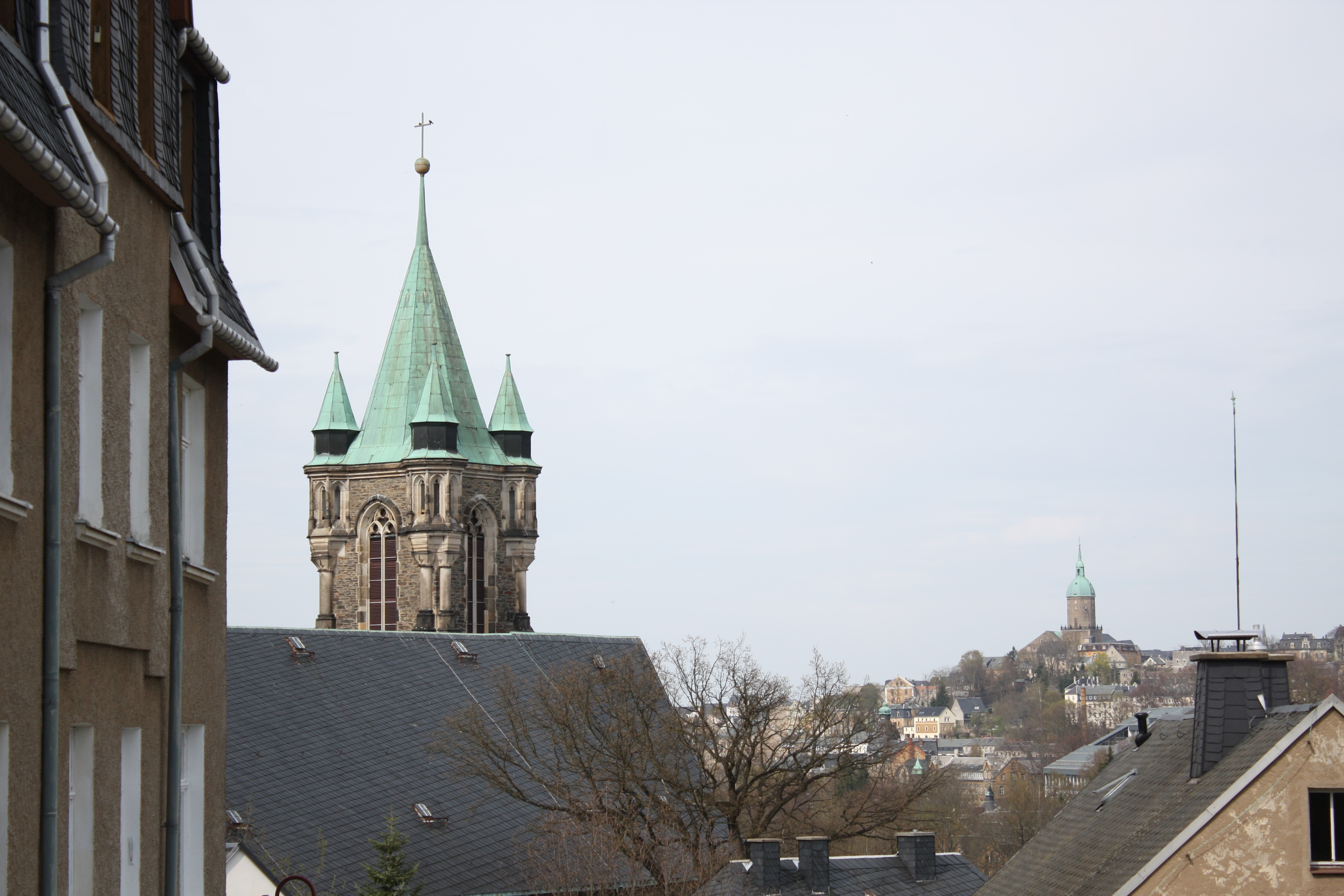 View from Buchholz towards Annaberg